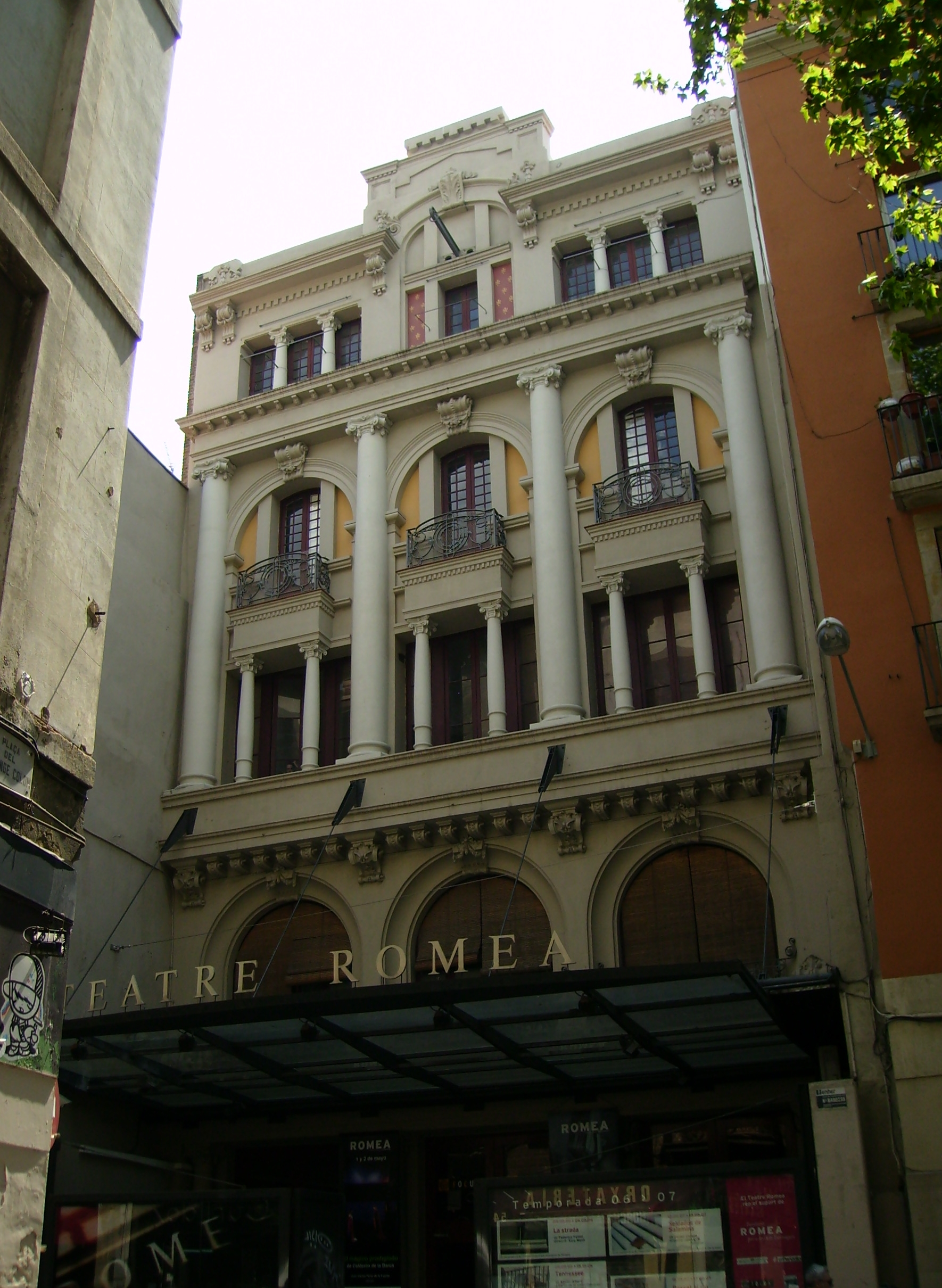 Romea Theater in Barcelona (Catalonia)